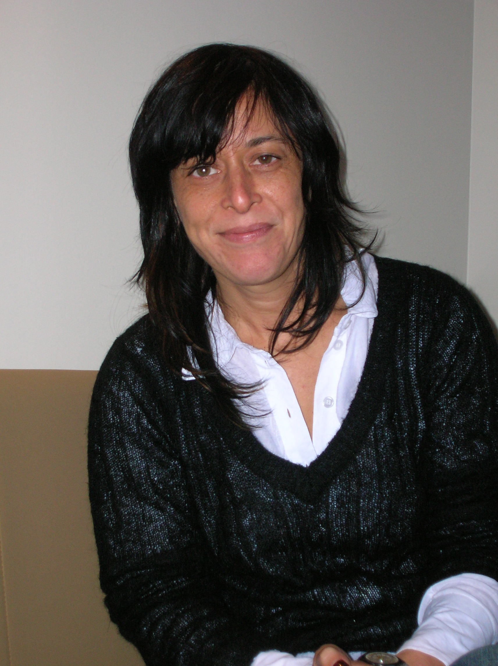 Argentinian director Verónica Chen in Lyon (France) in 2007 during a press conference for her movie Agua.